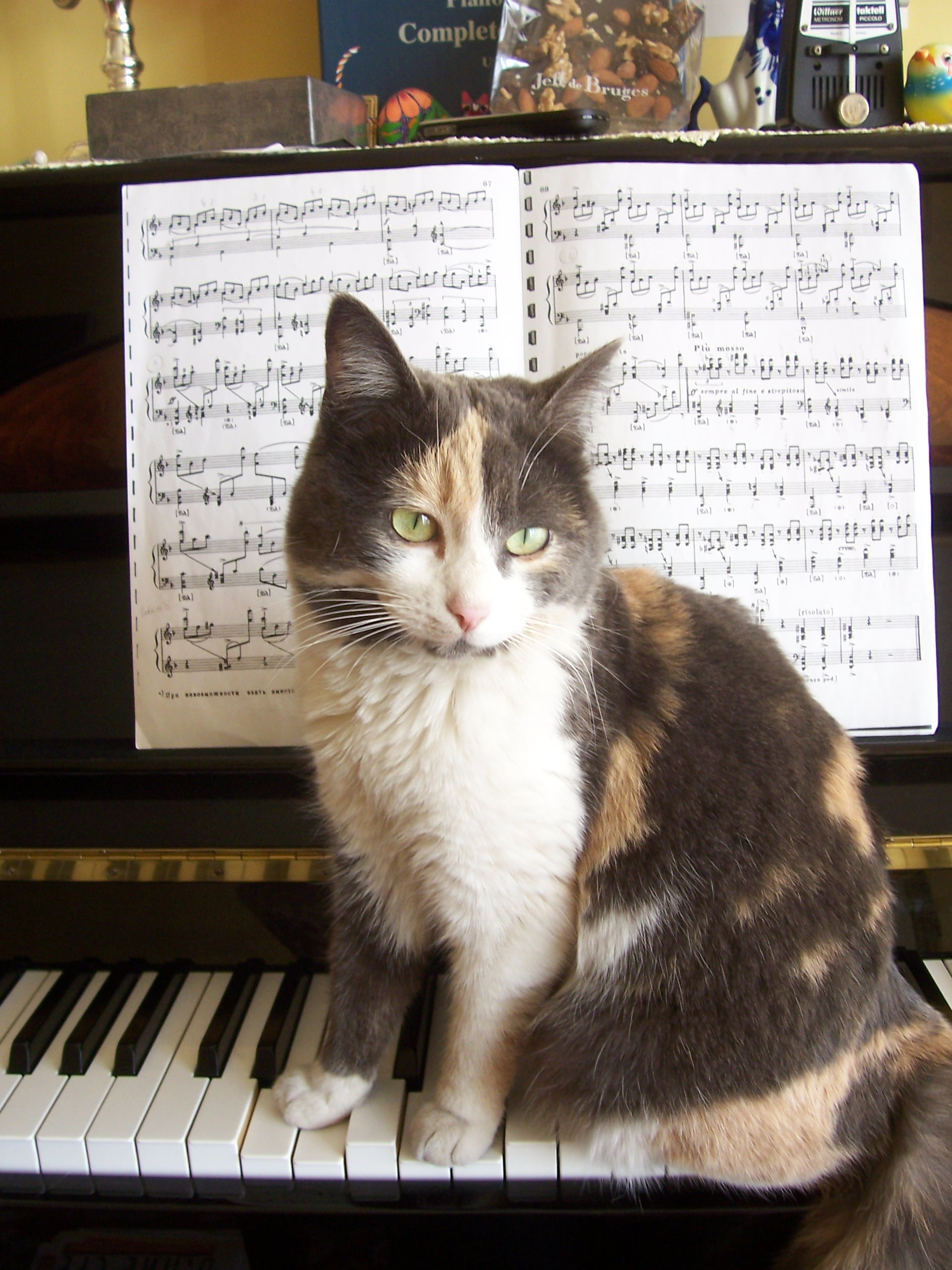 Picture took by Edwige L.-M. (cat called Gina)